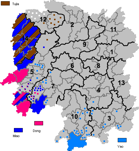 Ethnic minorities areas in Hunan